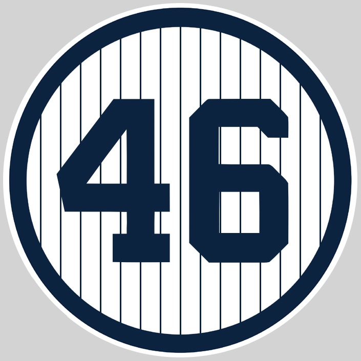 Andy Pettitte's jersey number was retired by the New York Yankees in 2015.